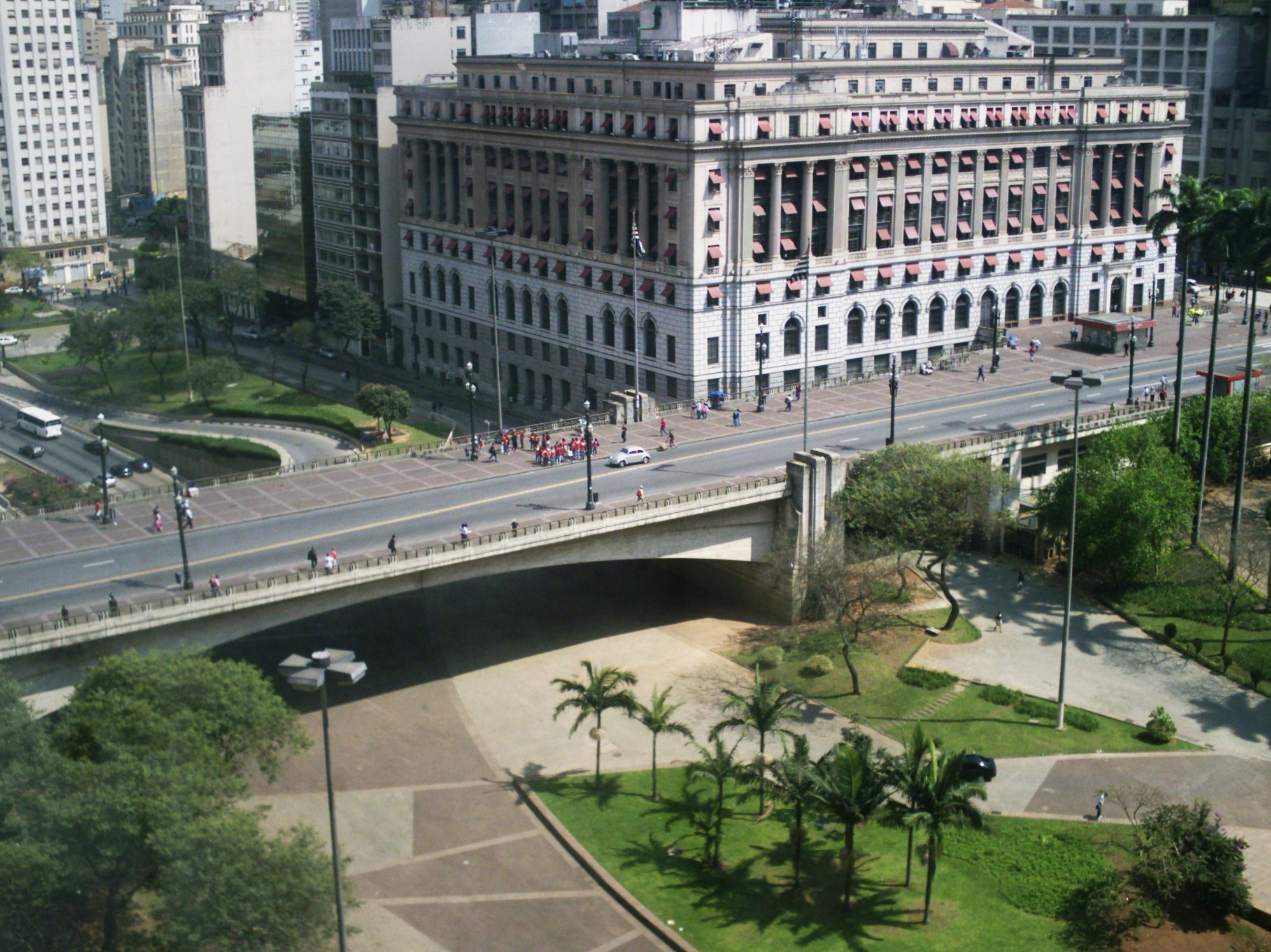 Viaduto do Chá & Shoping Light in São Paulo